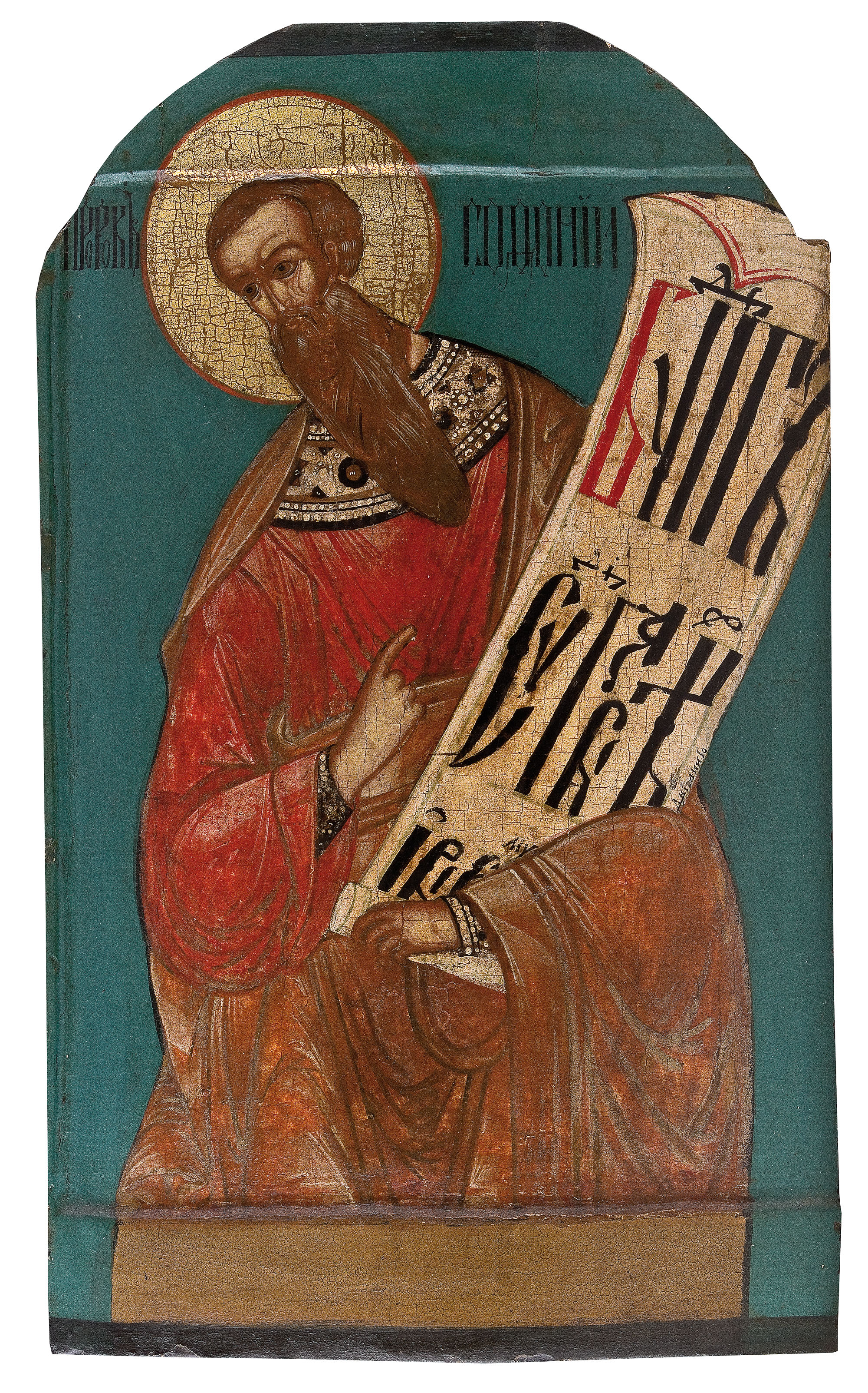 Six panels from a large iconostasis register. Tempera on wood panel with kovcheg. The Old Testament figures represented half length, turning towards the center where an image of the Mother of God would have been displayed. They are holding an unrolled scroll inscribed with the prophetic words. Teir faces and long beards rendered delicately. The faces executed in cool colours. The garments decorated with bejewelled hems. With a gold halo defined a red rim. The background dominated by tones of green, later. Norther Russian, 17th century. 62 x 39 cm. Nordrussland, 17. Jh.